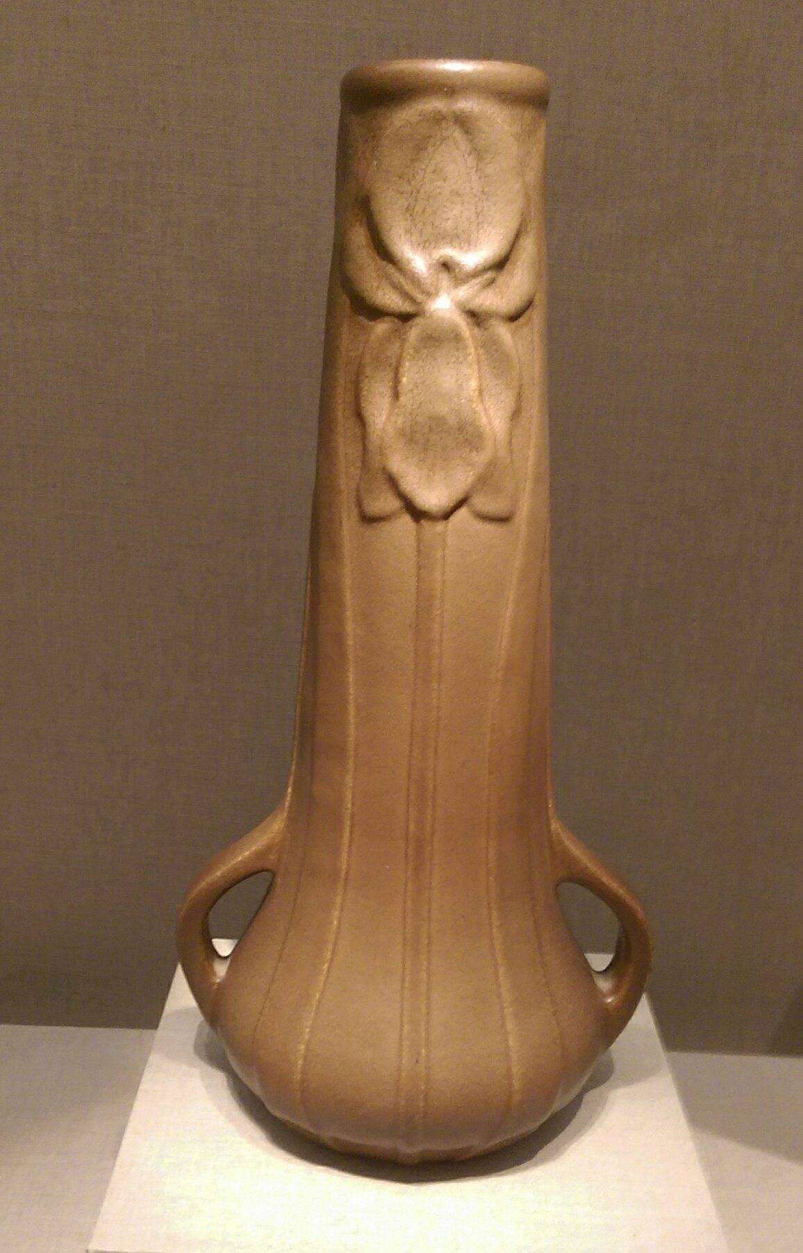 An Iris vase, made by Artus Van Briggle, approximately 1903, on display at the de Young Museum in San Francisco. Photo by Jim Heaphy.